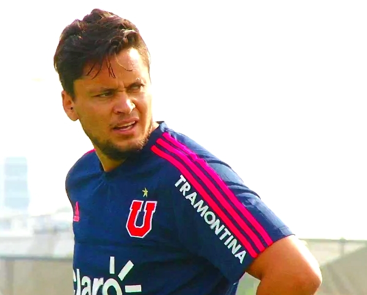 Defensa Club Universidad de Chile